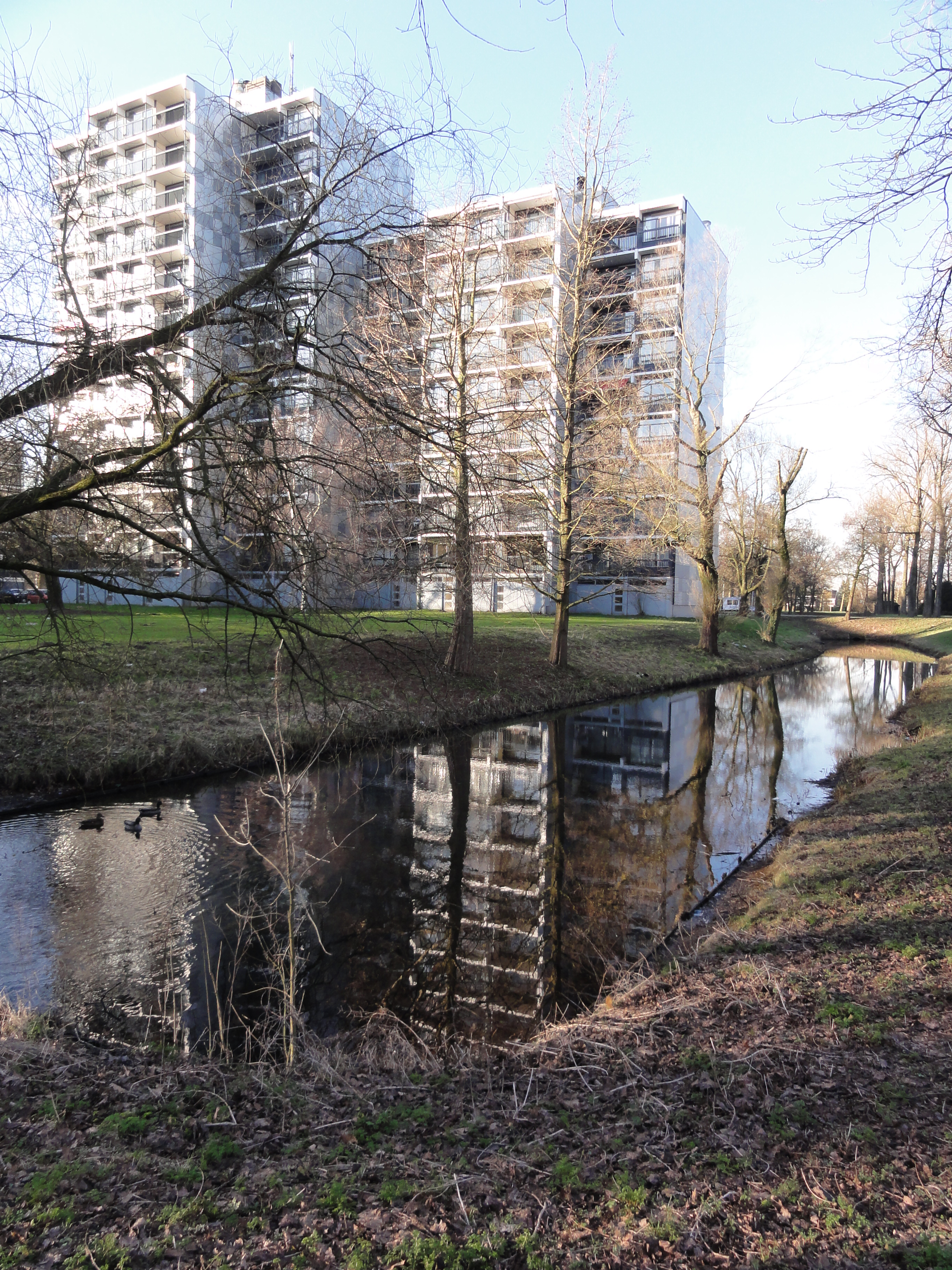 Nijmegen Dukenburg, Valckenaerflats Lankforst zich spiegelend in de voormalige kasteelgracht van het verdwenen kasteel Dukenburg.